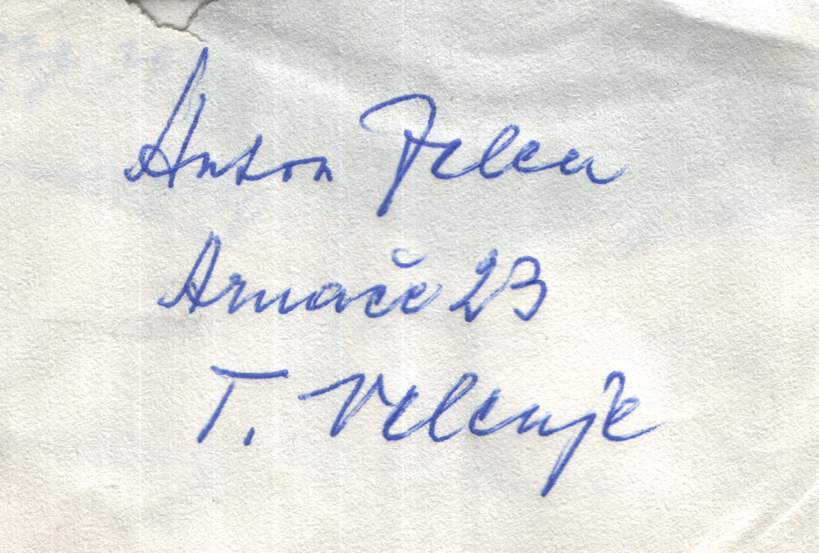 My father's signature on the back of an envelope, which he wrote to me on 1. II. 1986